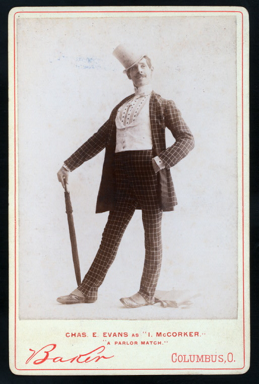 Charles E. Evans as "I. McCorker" in A "Parlor Match"